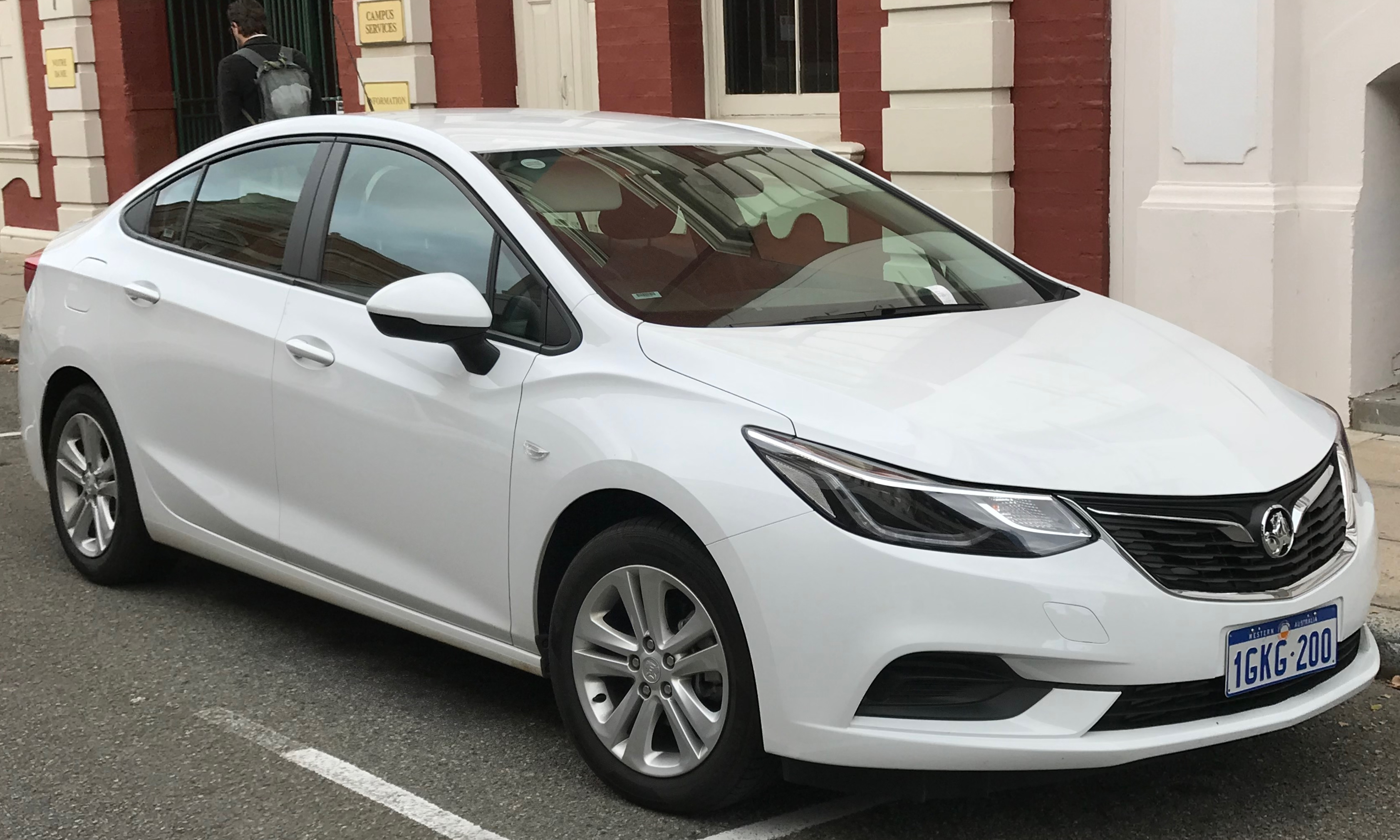 2018 Holden Astra (BL) LS sedan. Photographed in Fremantle, Western Australia, Australia.